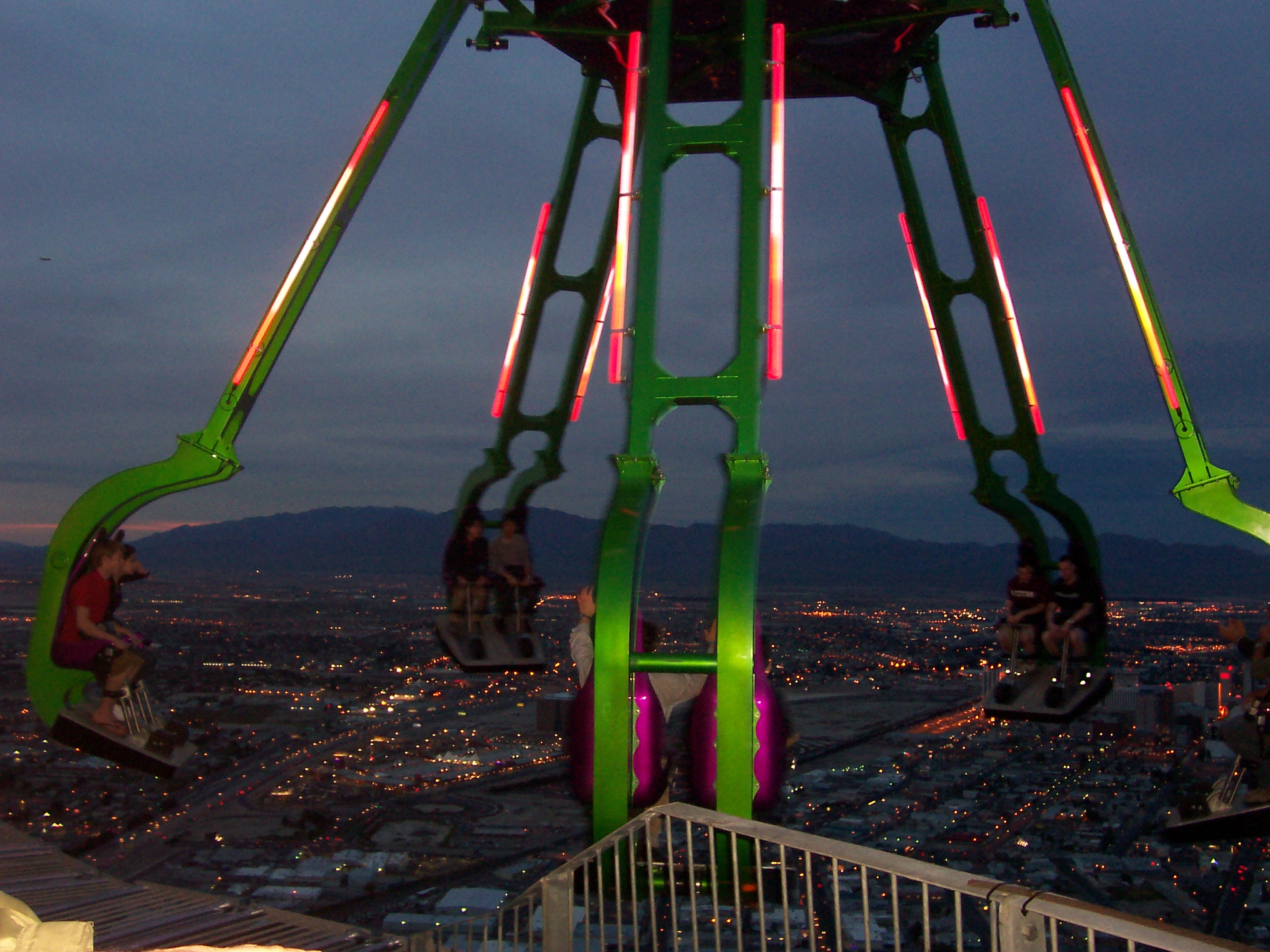 Insanity the Ride atop Stratosphere Las Vegas taken March 27, 2005 by User:Michael180 with Kodak EasyShare CX6330.